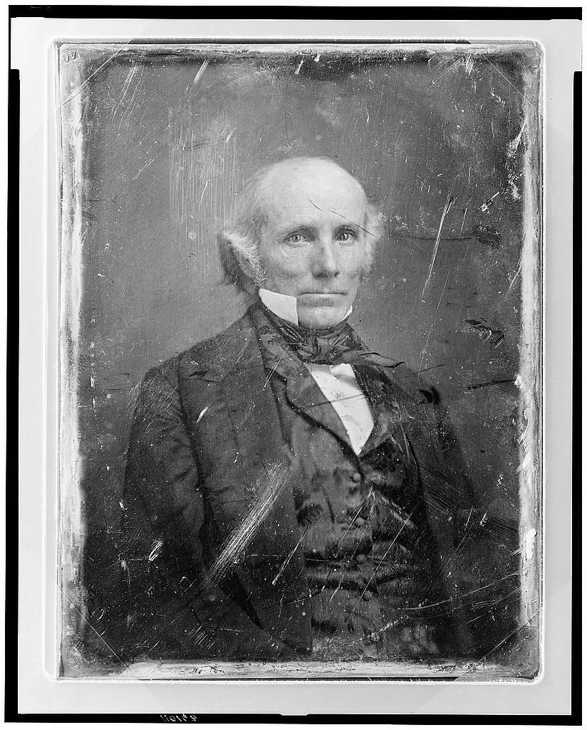 Henry Stuart Foote, American politician, senator and governor of Mississippi